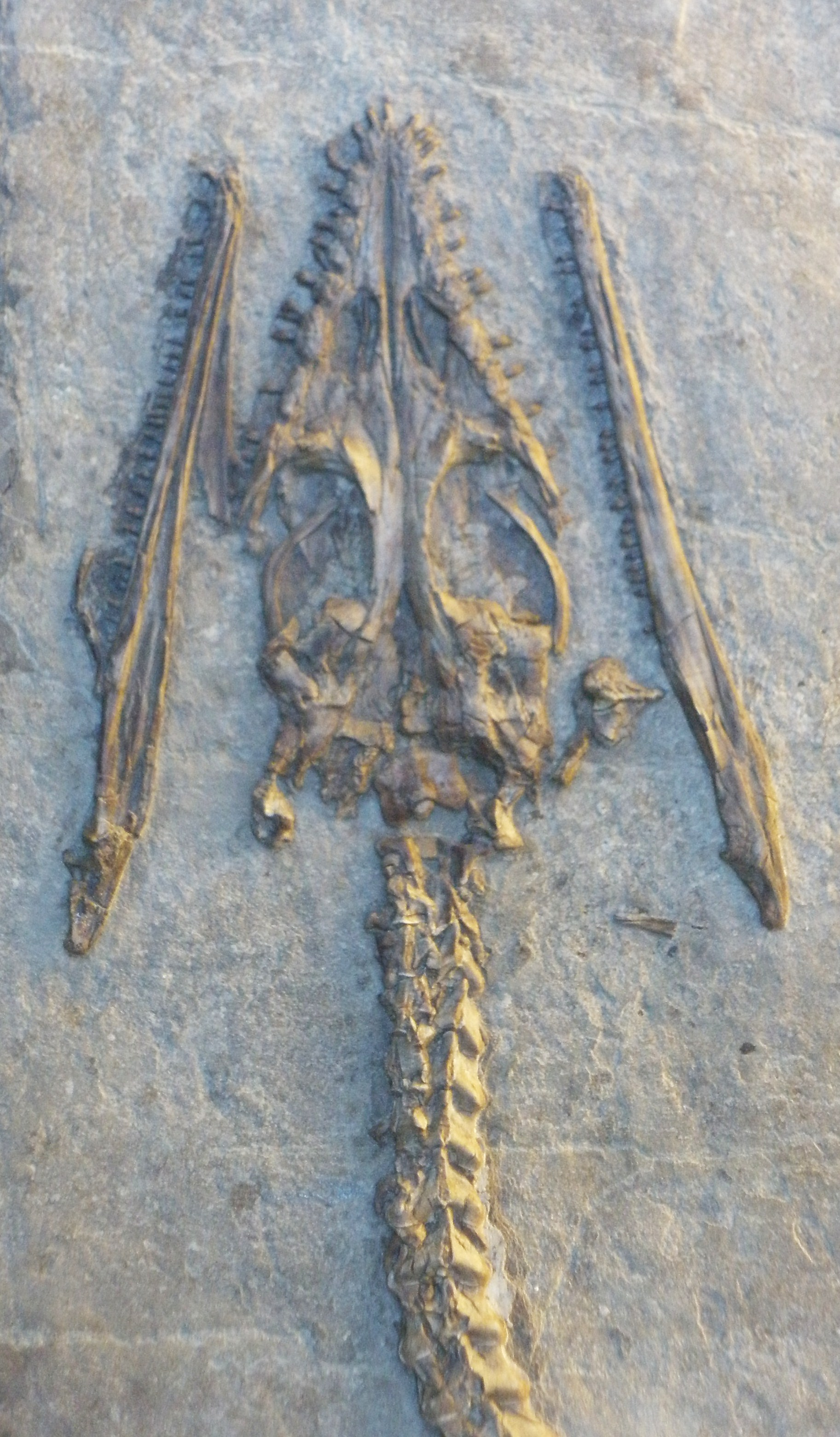 fossil neusticosaurus